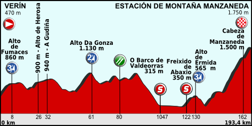 Profile of the 11th stage: Vuelta a España 2011